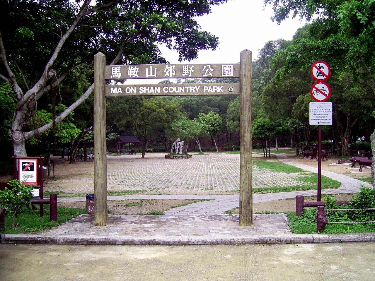 Ma On Shan Country Park gate near Ma On Shan Country Park BBQ site